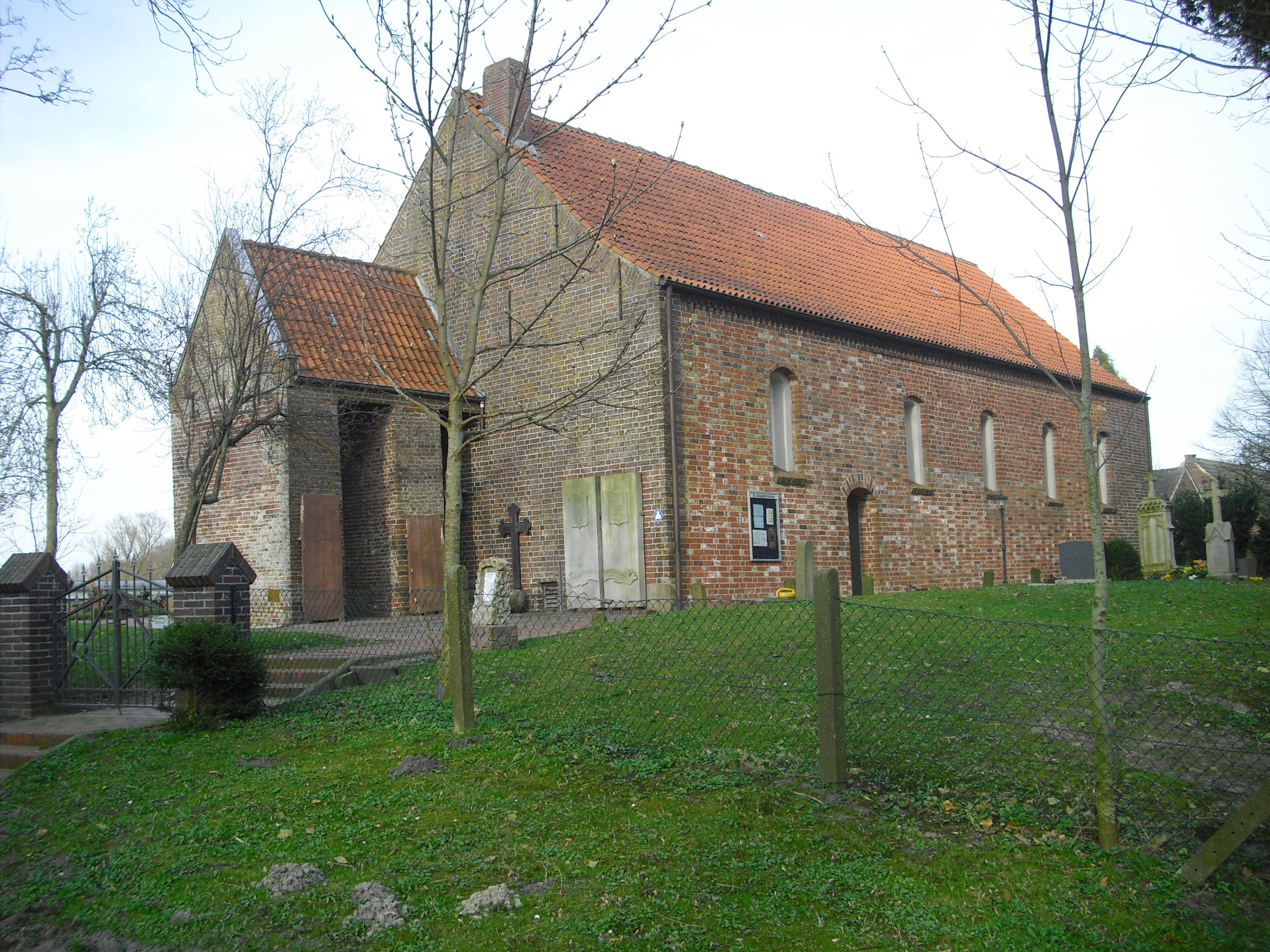 Lutheran Church (south), Westrum (village in the northwestern part of Germany, Wangerland, district of Friesland)